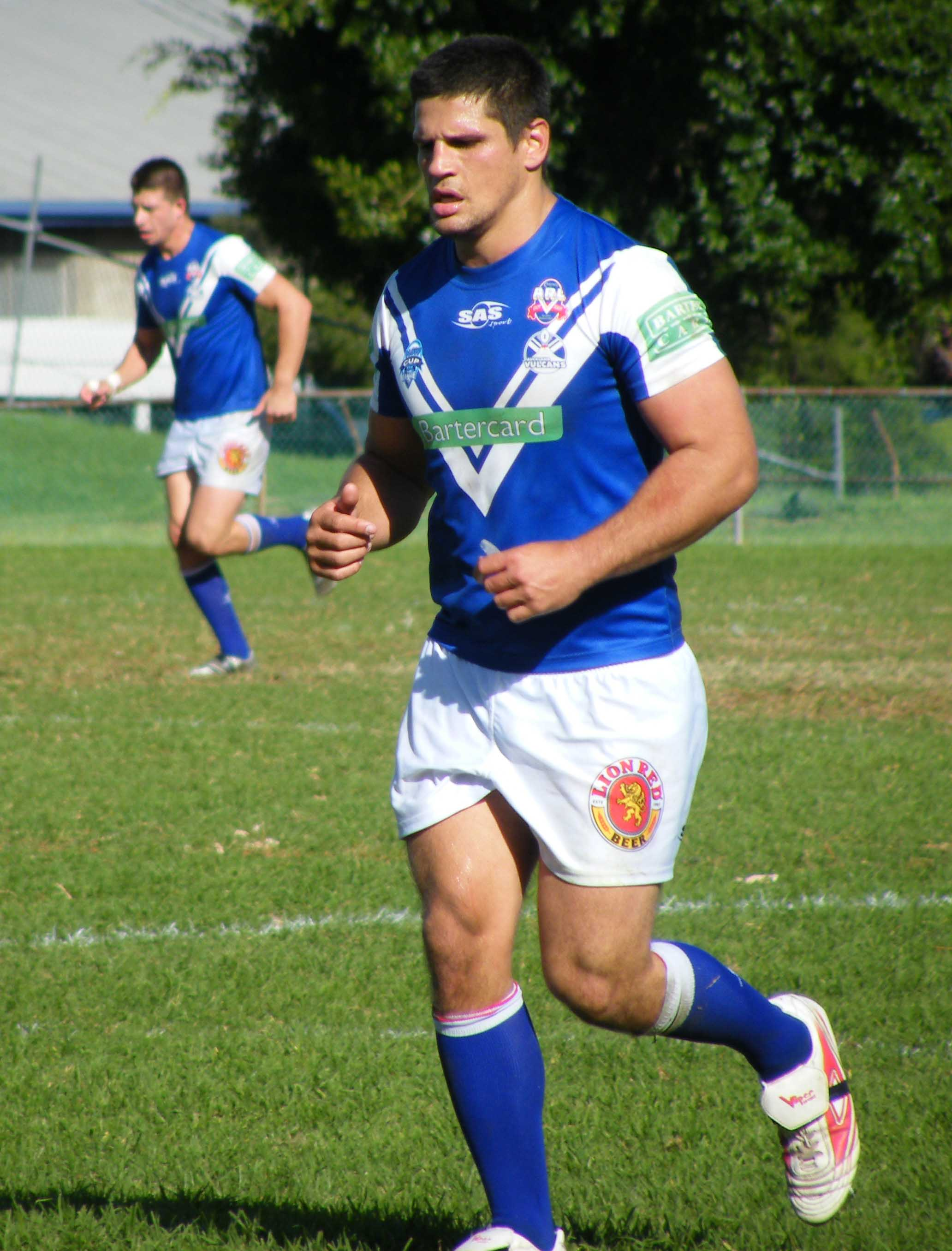 Paul Atkins of the Auckland Vulcans